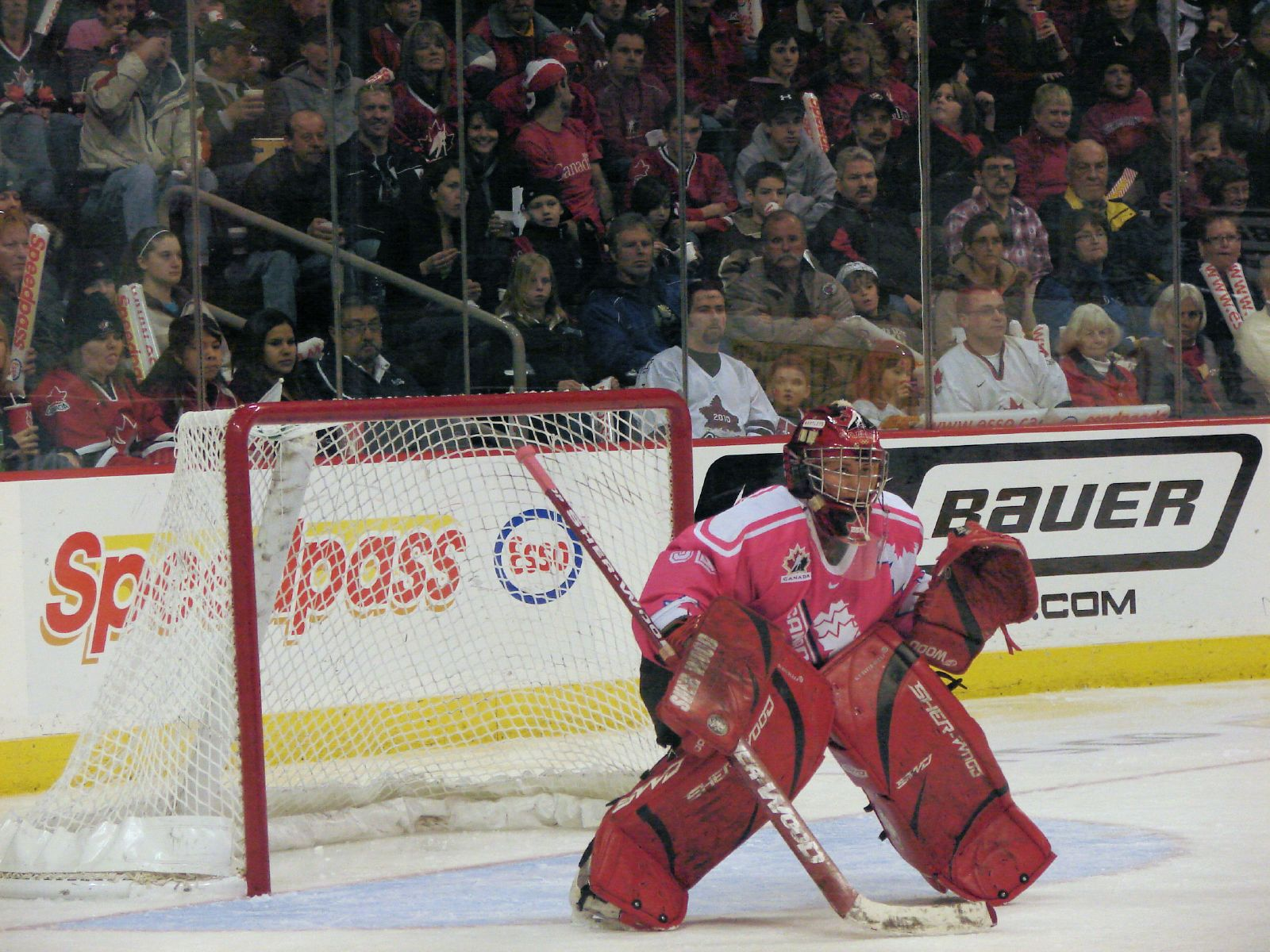 Canada goaltender Charline Labonté at the 2007 IIHF Women's World Championships.